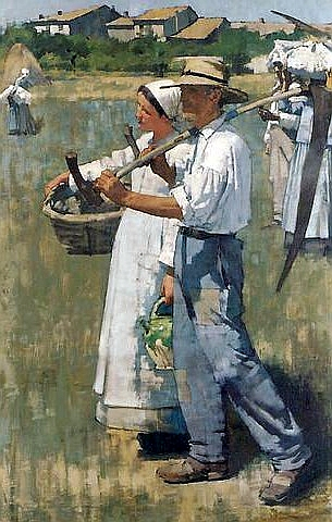 In The Dauphiné